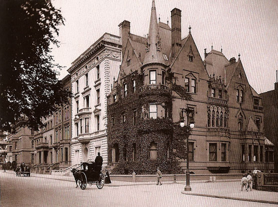 Jay Gould residence at Fifth Avenue in New York.